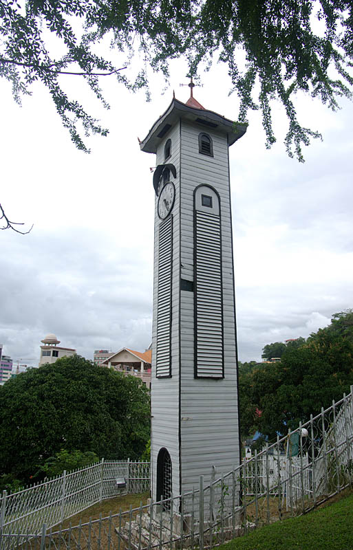 Atkinson Clock Tower in Kota Kinabalu